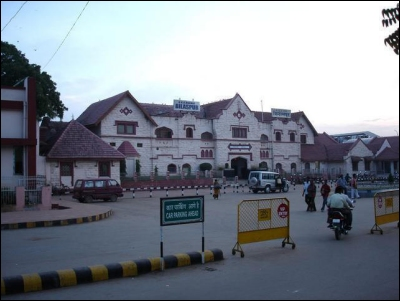 Bilaspur (Hindi: बिलासपुर) is a city in Bilaspur District in the Indian state of Chhattisgarh, situated 111 km (69 mi) north of state capital, Raipur. It is the second-largest city in the state. It is the administrative headquarter of Bilaspur district. Chhattisgarh High Court at Bilaspur privilege it to host the name 'Nyayadhani' of the state.